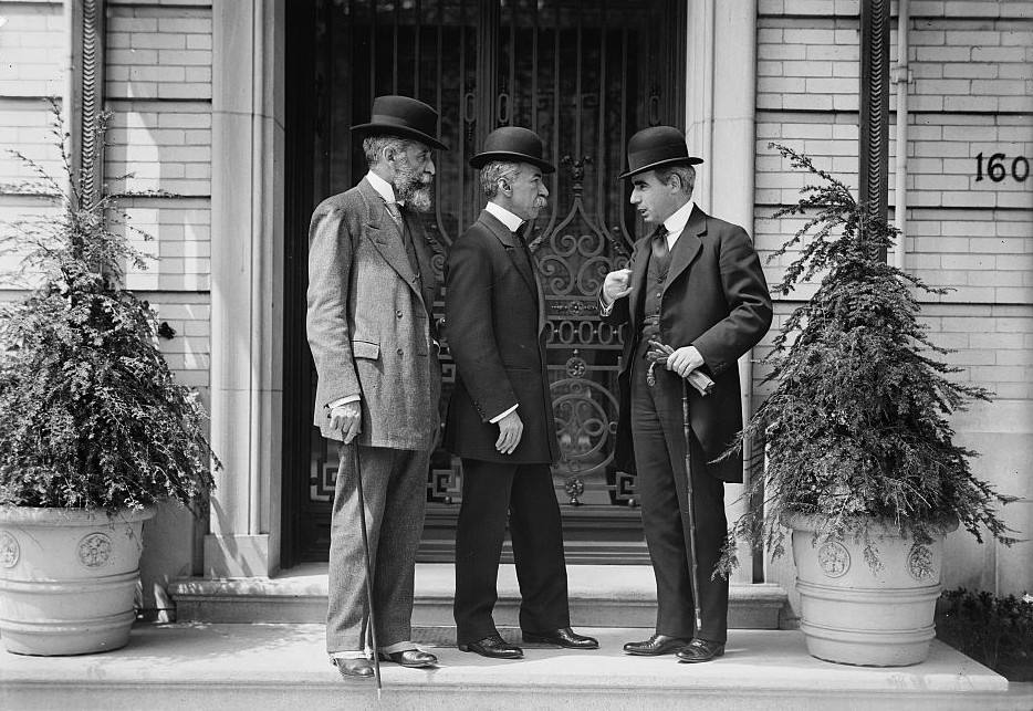 Eduardo Suárez Mujica and Domício da Gama and Romulo S. Naon at the Niagara Falls peace conference in 1914. Medium: 1 negative : glass ; 5 x 7 in. or smaller Part of: Harris & Ewing Collection (Library of Congress) Reproduction Number: LC-DIG-hec-04080 (digital file from original negative) Rights Advisory: No known restrictions on publication. Call Number: LC-H261- 3825 [P&P] Repository: Library of Congress Prints and Photographs Division Washington, D.C. 20540 USA Notes: Title from unverified caption data received with the Harris & Ewing Collection. Gift; Harris & Ewing, Inc. 1955. General information about the Harris & Ewing Collection is available at Format: Glass negatives. Collections: Harris & Ewing Collection